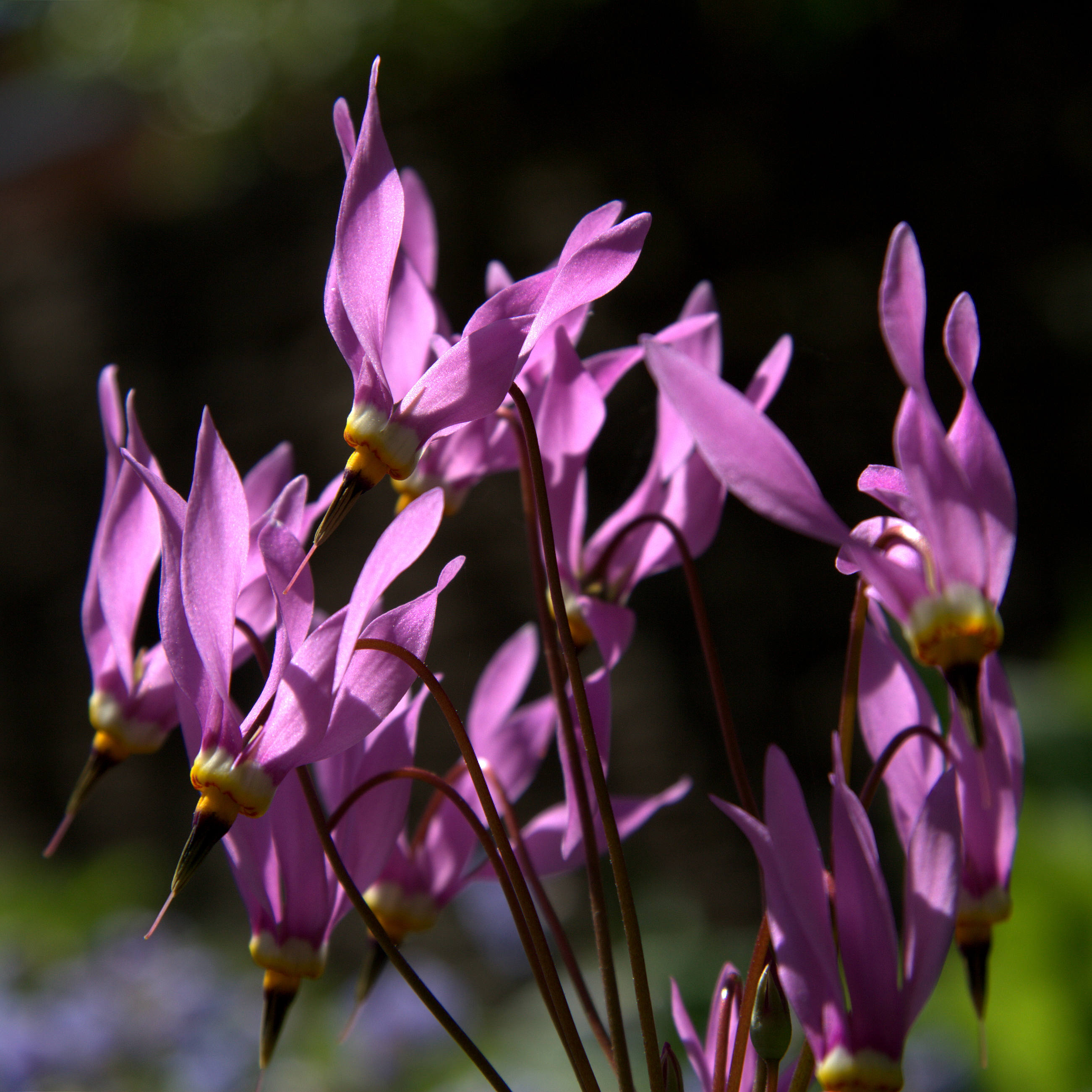 Dodecatheon meadia